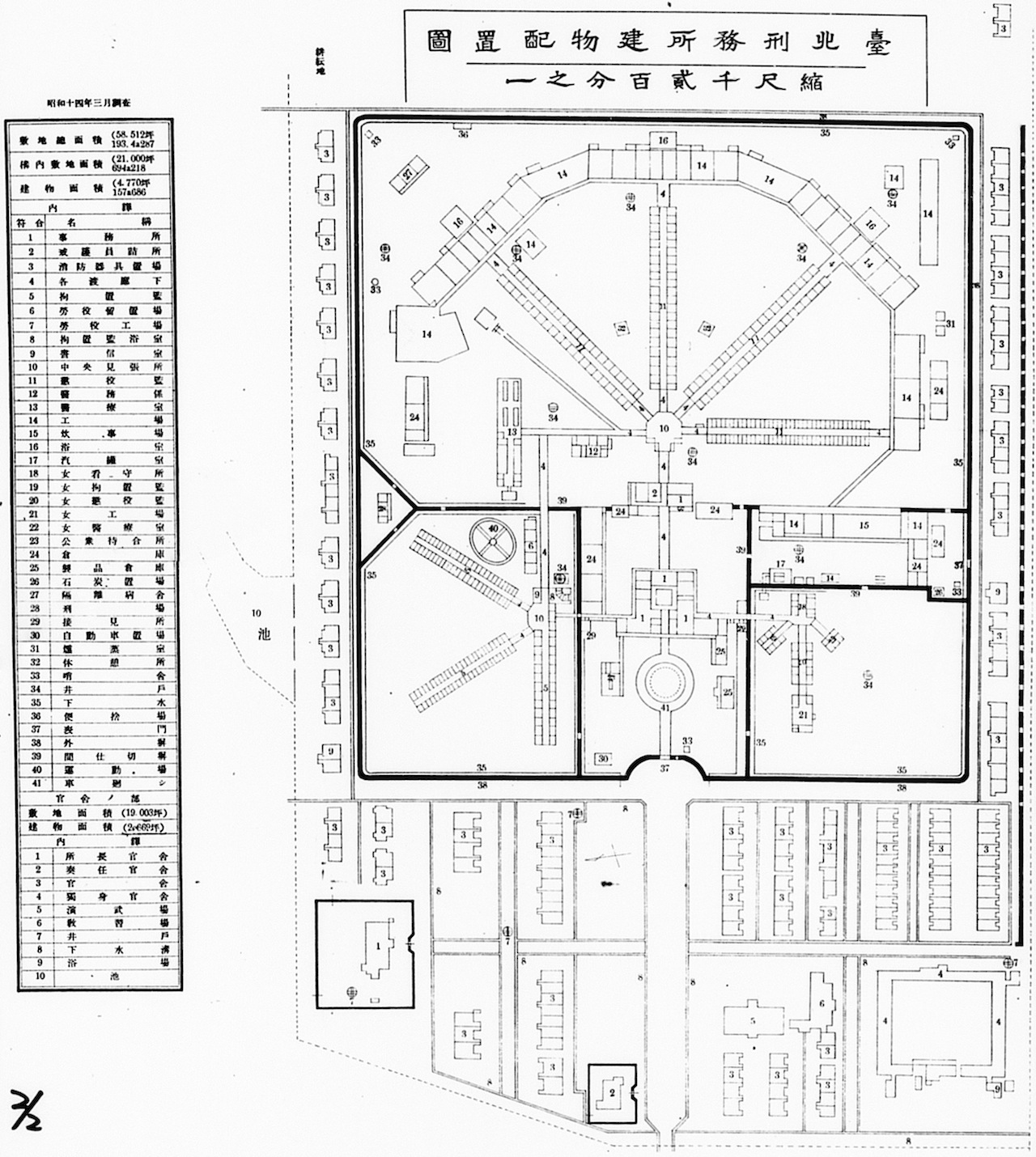 Taihoku prison plan